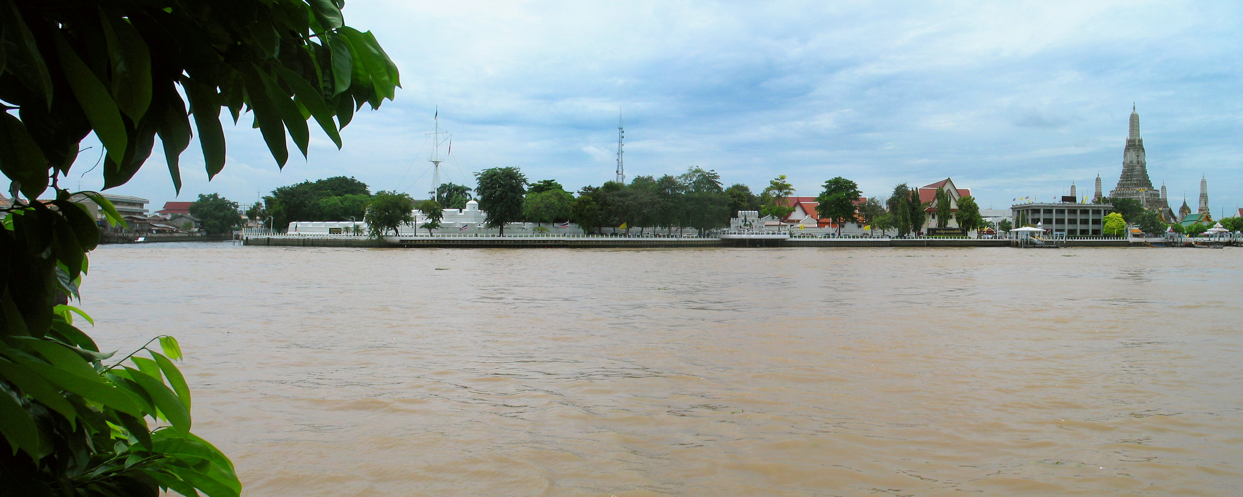 View of the western shore of Chao Phraya River in Bangkok (Thailand): Fort Wichaiprasit and Wat Arun